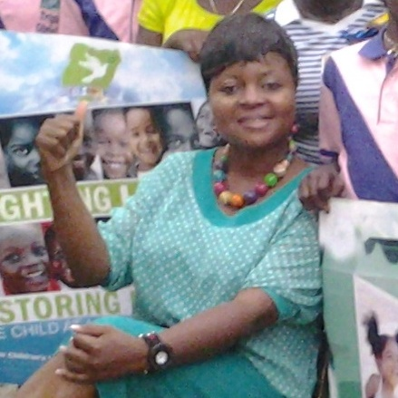 Pioneer members of Triple Girls' Club (Girl Empowerment Initiative), Makoko chapter with founder, Betty Abah